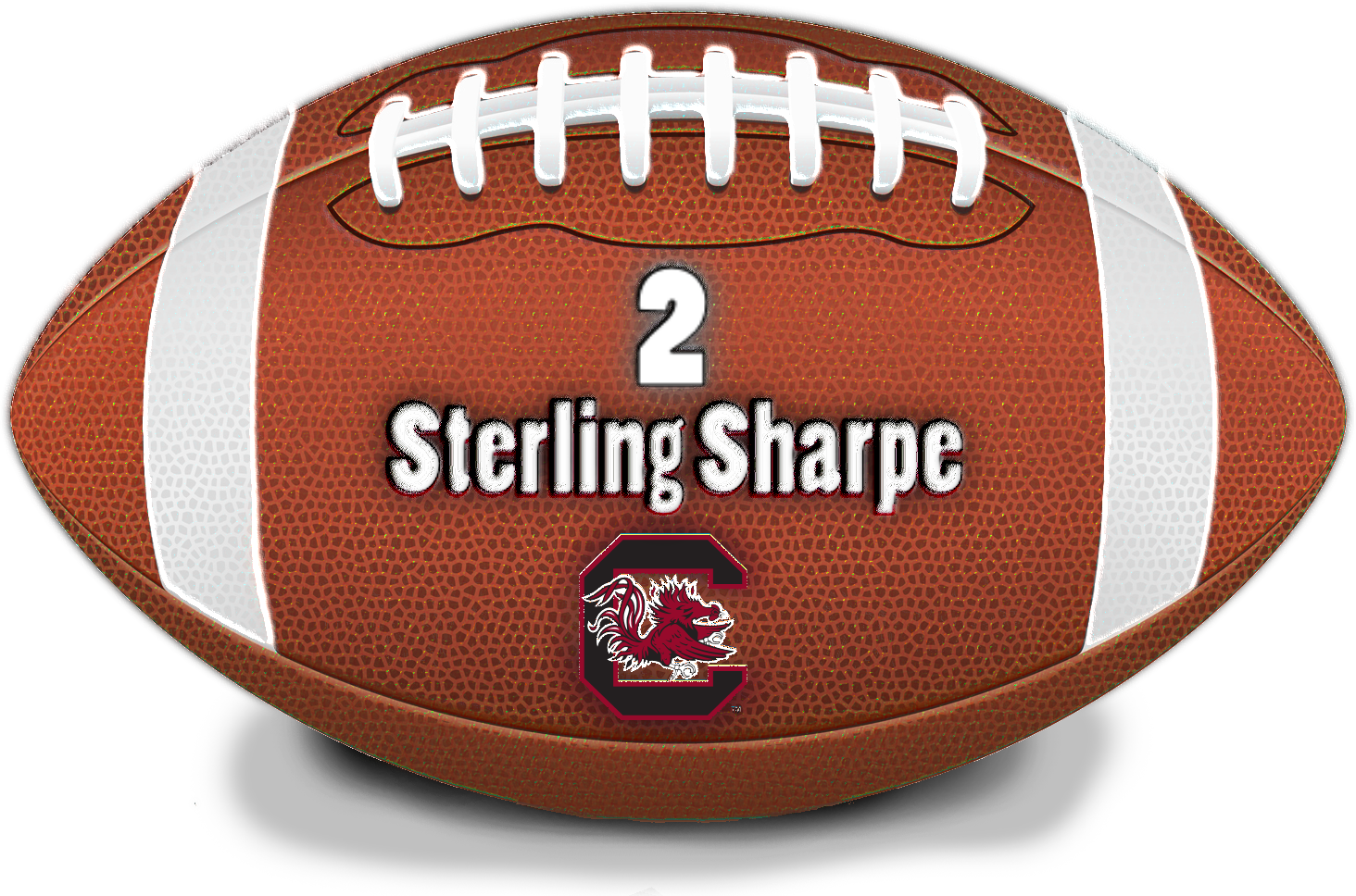 My Own Art Work useing PaintShop Pro X3